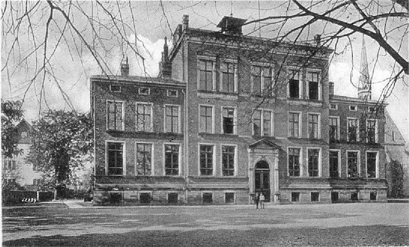 Royal Prussian Gymnasium Rinteln 1916